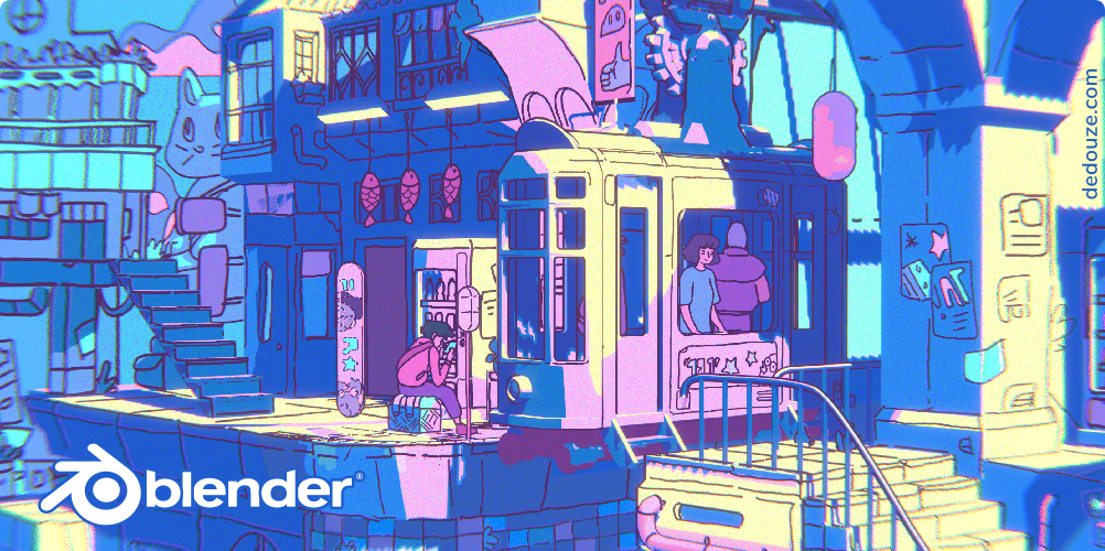 Splash screen by Andry Rasoahaingo for the free and open 3D and animation application Blender version 2.81